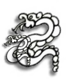 Escudo San Miguel Tocuila, Mexico